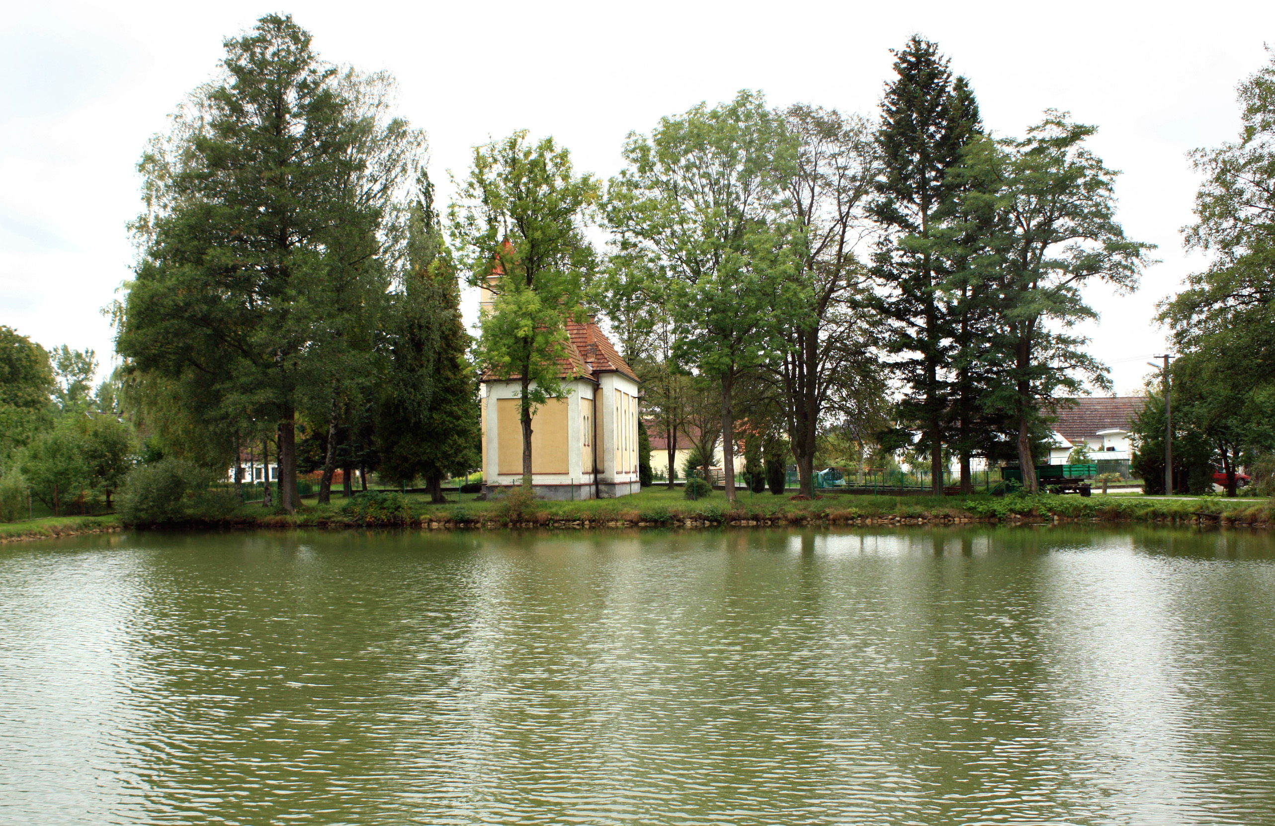 West pond in Příbraz, Czech Republic